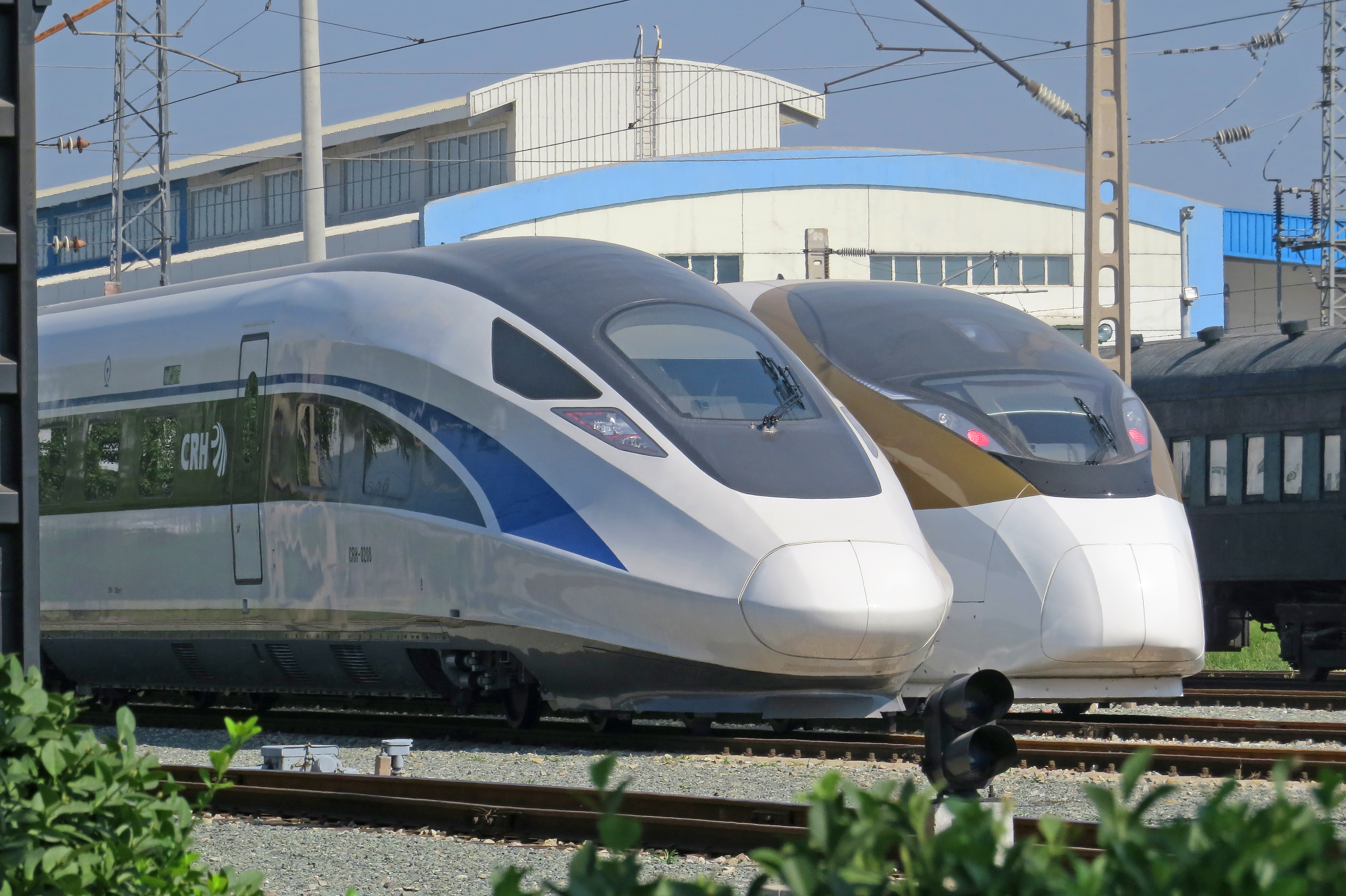 Here are CRH-0208 from Sifang and 0507 from Changchun. A.k.a. CR400AF (Chen Ruofei) and CR400BF (Sun Ruoxuan) since 2017.